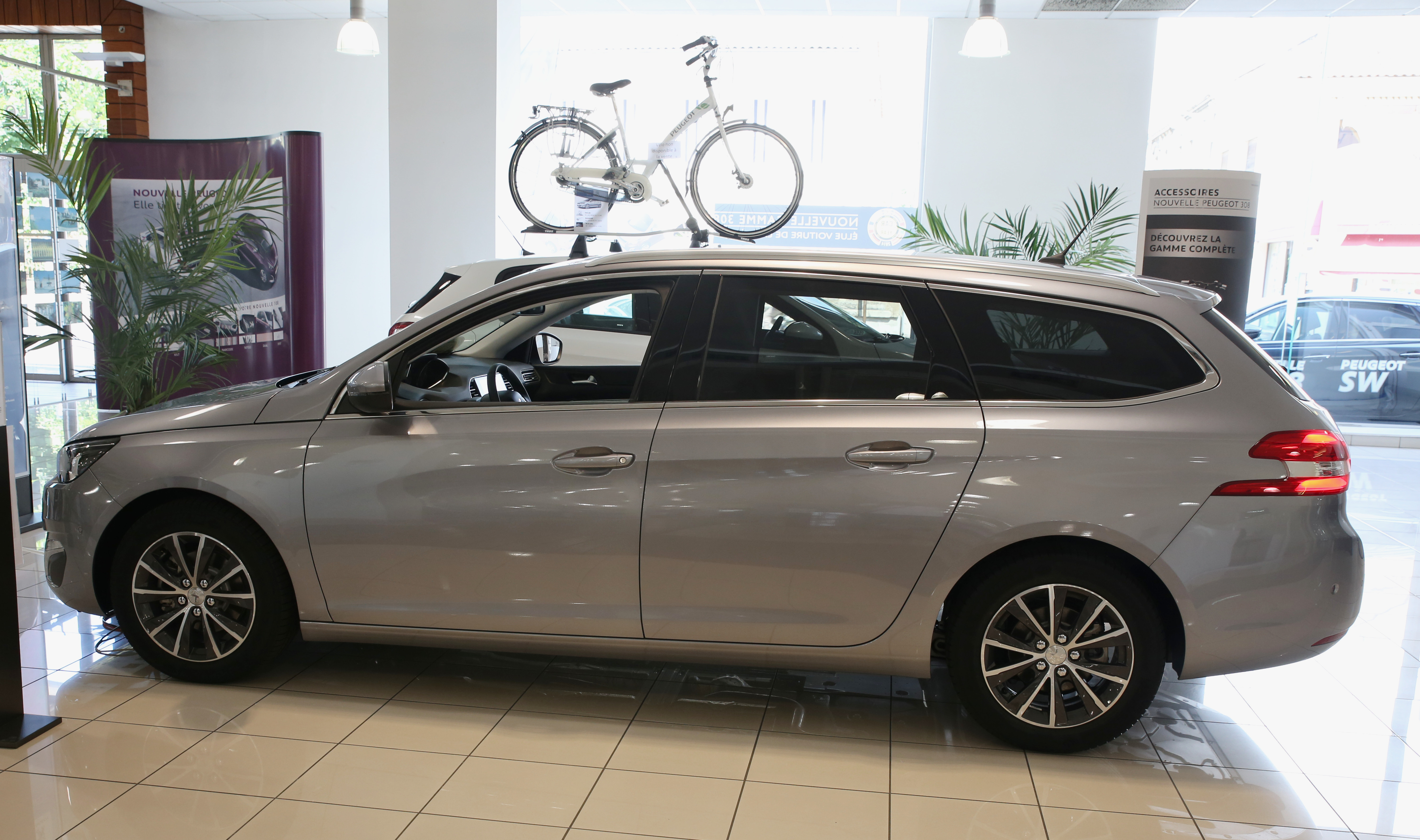 Peugeot 308 SW 2014